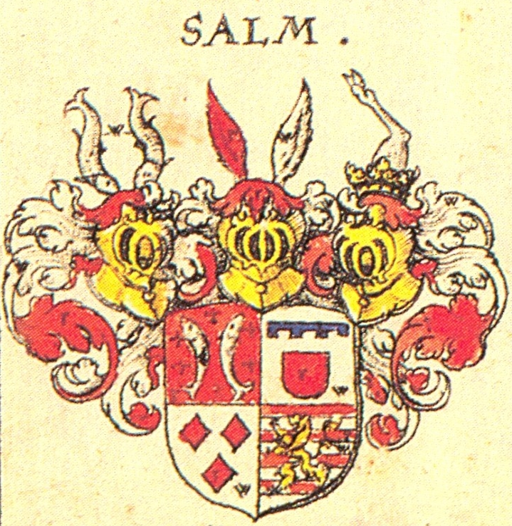 Coat of arms of Salm